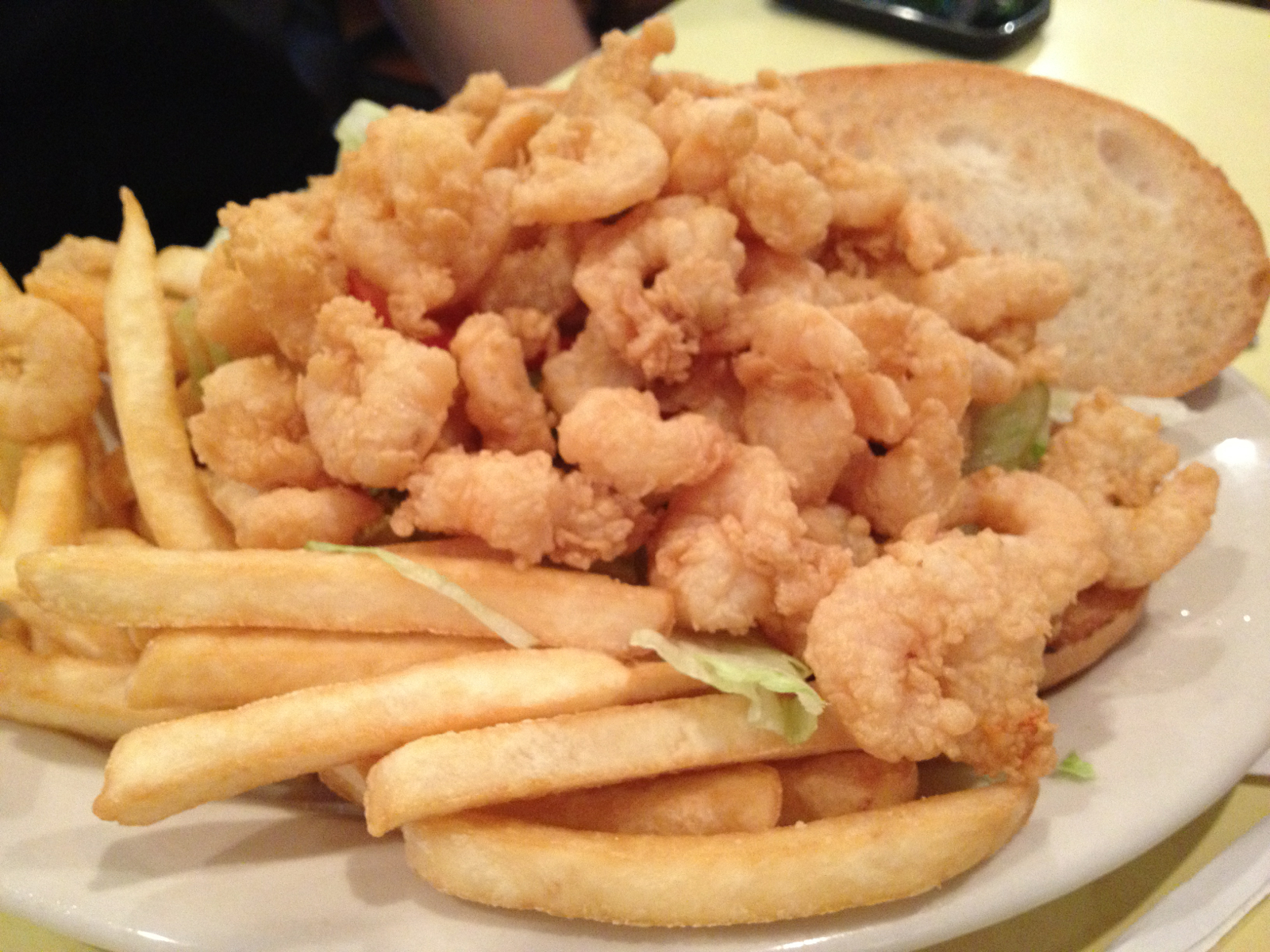 Fried shrimp po-boy at Middendorf's Restaurant. I was a little surprised to see Dave Schaefer go for fried food so early in the trip but he managed to demolish this sandwich.